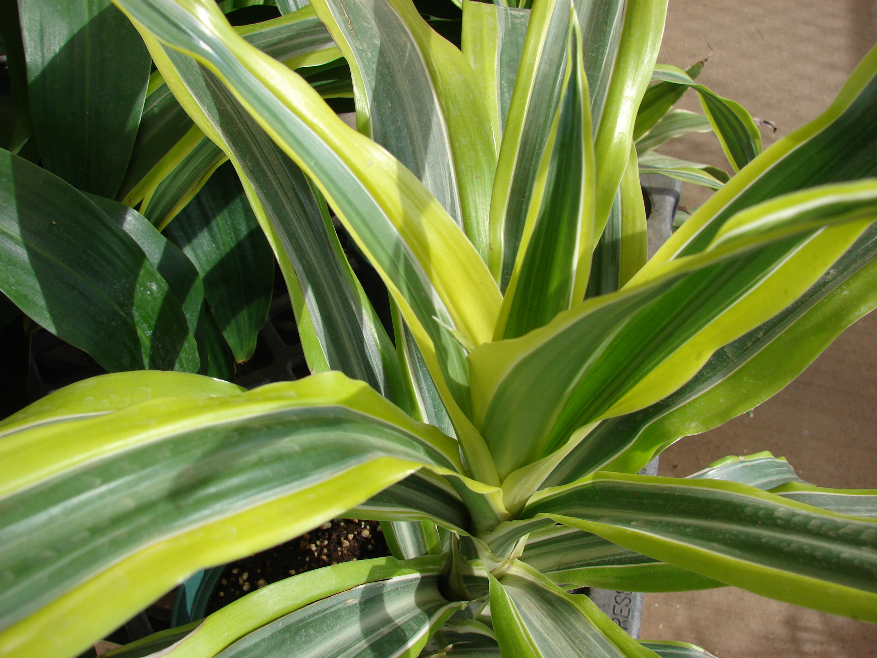 Dracaena fragrans (Lemon Lime leaves). Location: Maui, Walmart Kahului